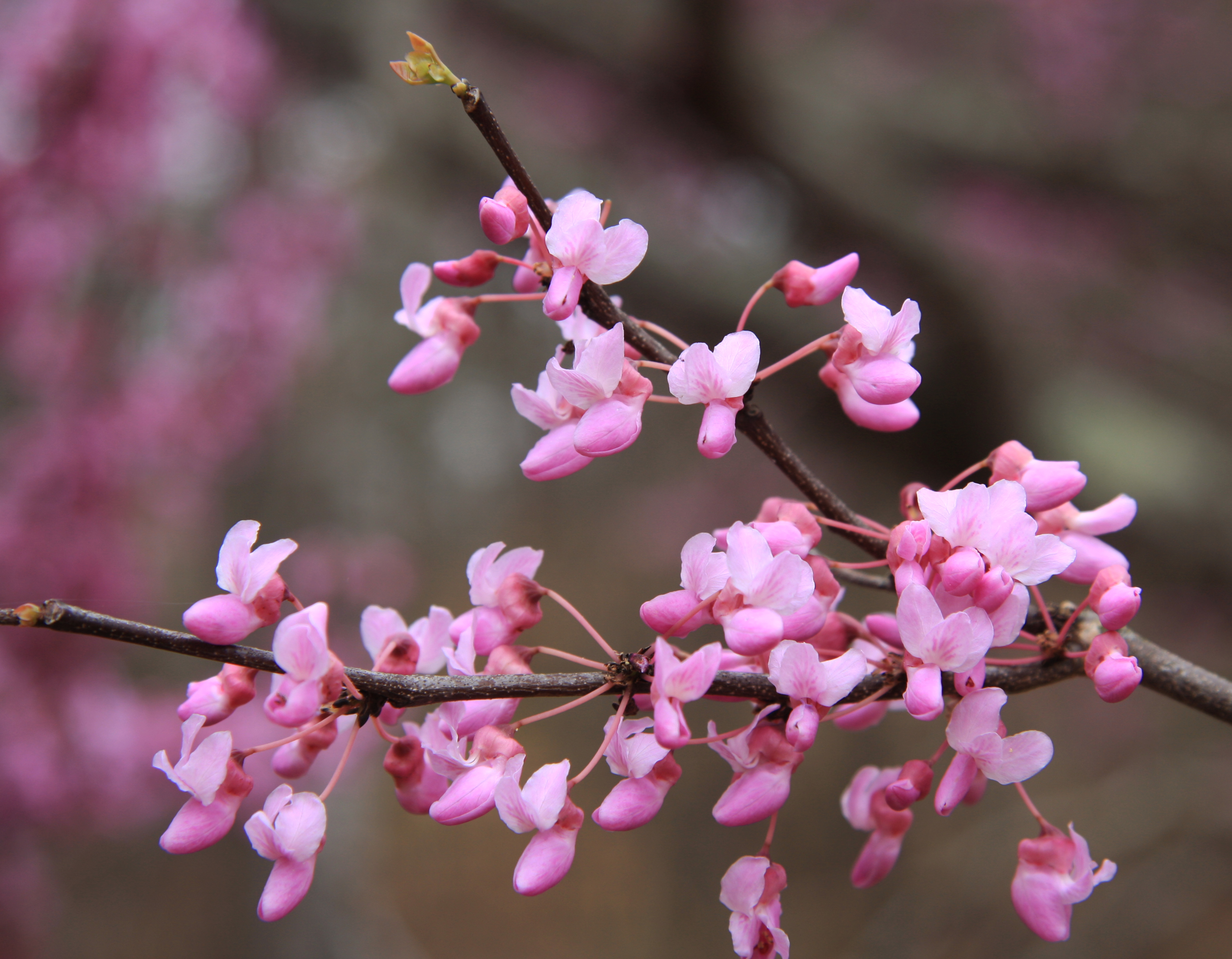 American redbud (Cercis canadensis), closeup of flowers. Duke Forest Korstian Division, Durham, North Caroina USA.